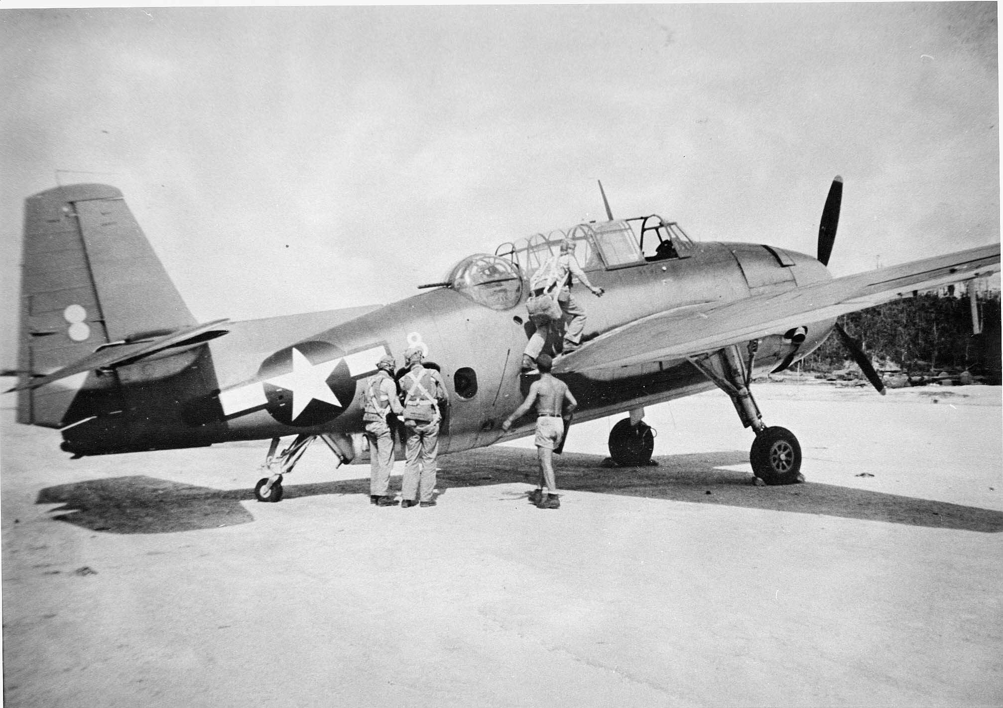 A U.S. Marine Corps Grumman TBF-1 at Barakoma, Vella Lavella island. Marine Torpedo Bomber Squadrons (VMTB) 134, 232, and 233 were in the area.